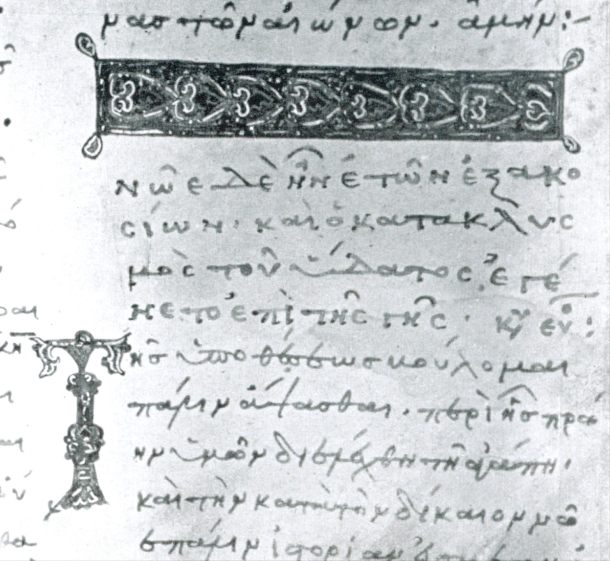 Pergamenthandschrift Johannes Chrysostomos, Byzanz, ca. 1000–1050 Collection: Schloss Zeil